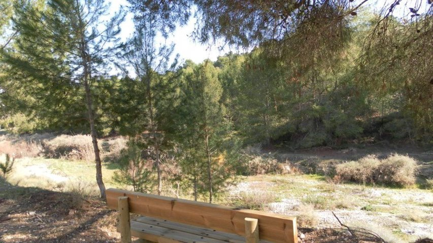 Otra vista de este paraje natural torreño.